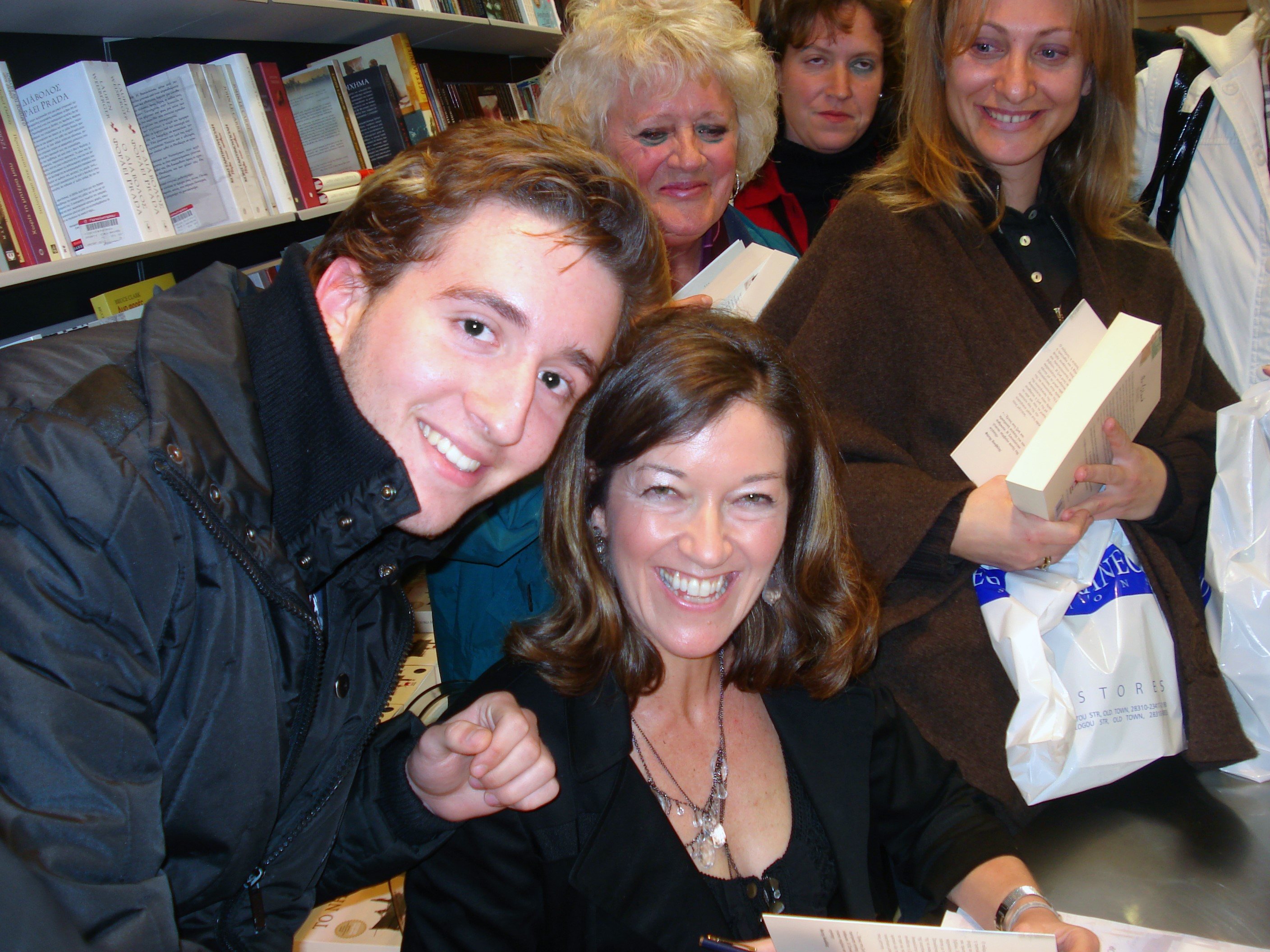 Victoria Hislop at an autograph session after a lecture at Rethymnon, Crete, Greece. She is surrounded by people.